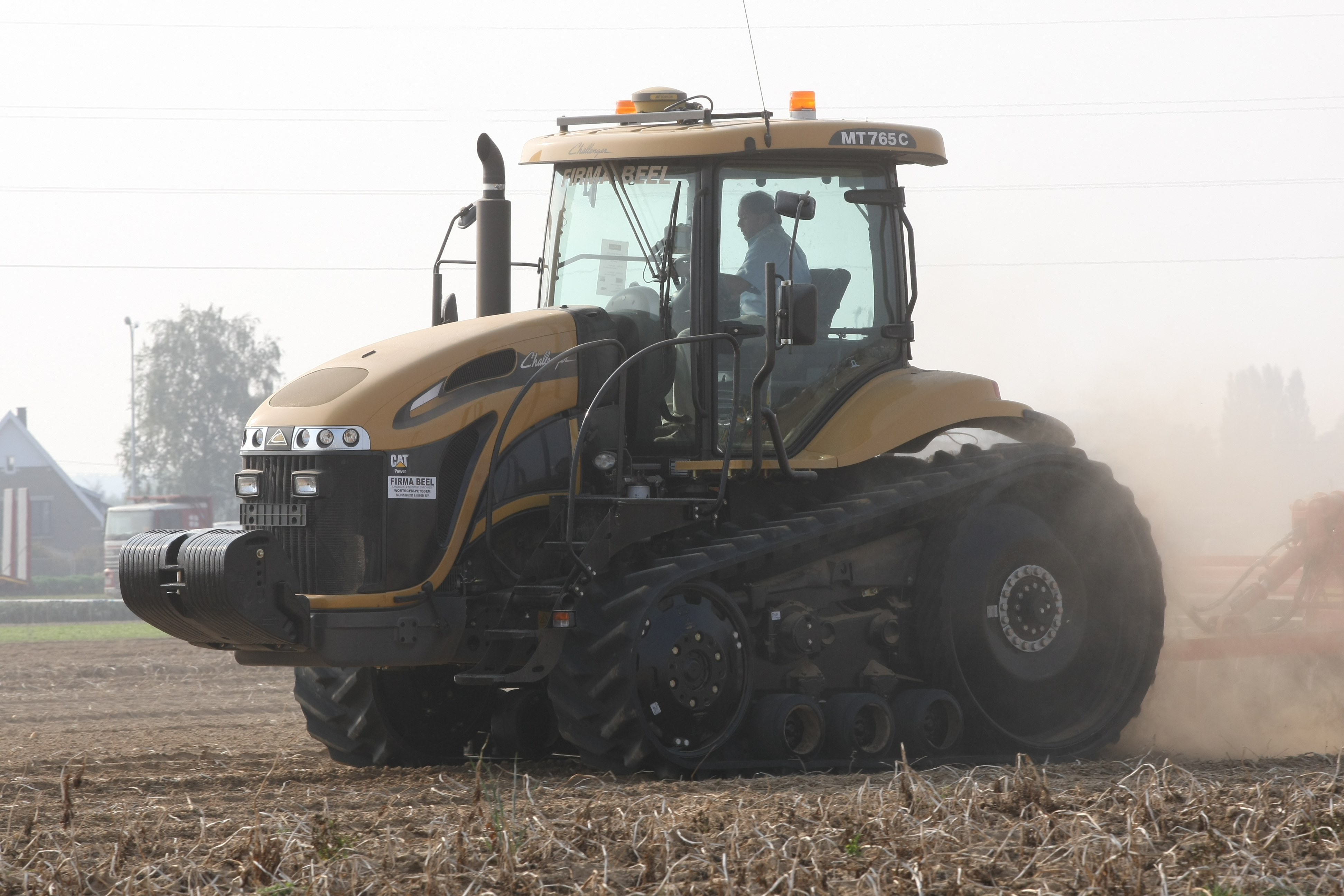 Caterpillar (CAT) Challenger MT765C tractor at Werktuigendagen 2009